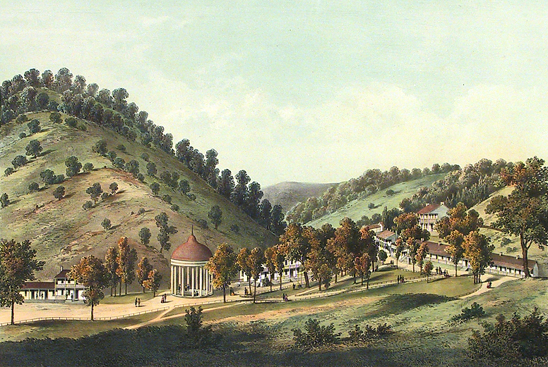 Lithographic print by Edward Beyer, published in his portfolio "Album of Virginia"